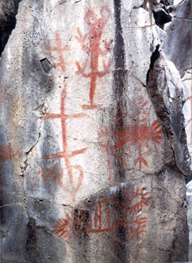 Native American Pictograph at Picture Gorge in John Day Fossil Beds National Monument, Oregon